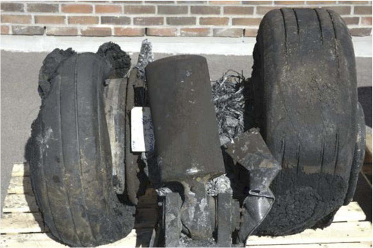 Atlantic Airways Flight 670: the wheels on the left main landing gear. The left wheel is on the right in the photo.